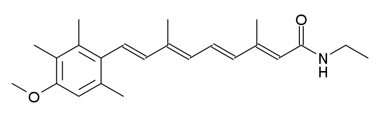 i drew this anyone can use it